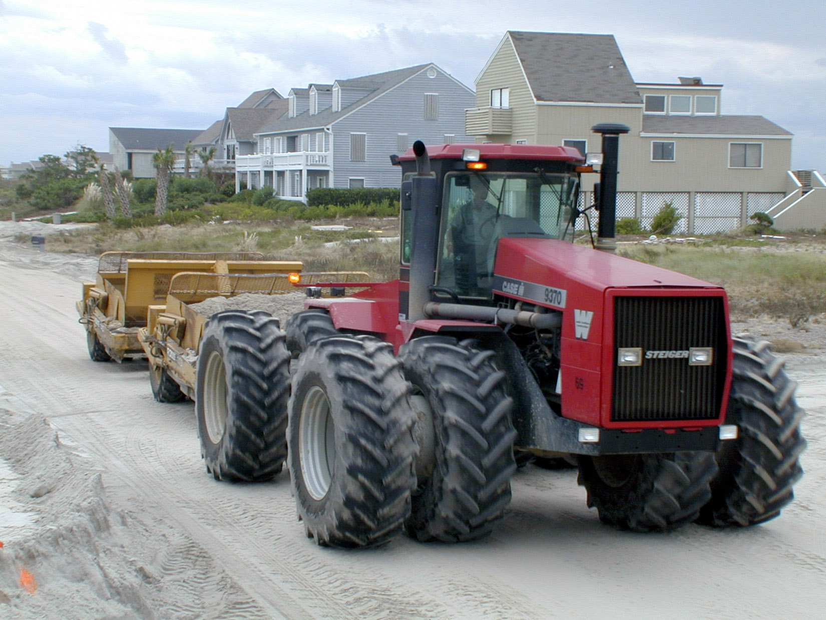 Figure Eight Island, NC, September 20, 1999 -- Hurricane Floyd covered the streets and driveways of this barrier island with four to five feet of sand. Heavy equipment was brought into remove the mountains of sand and to open the access. Photo by DAVE GATLEY/ FEMA News Photo